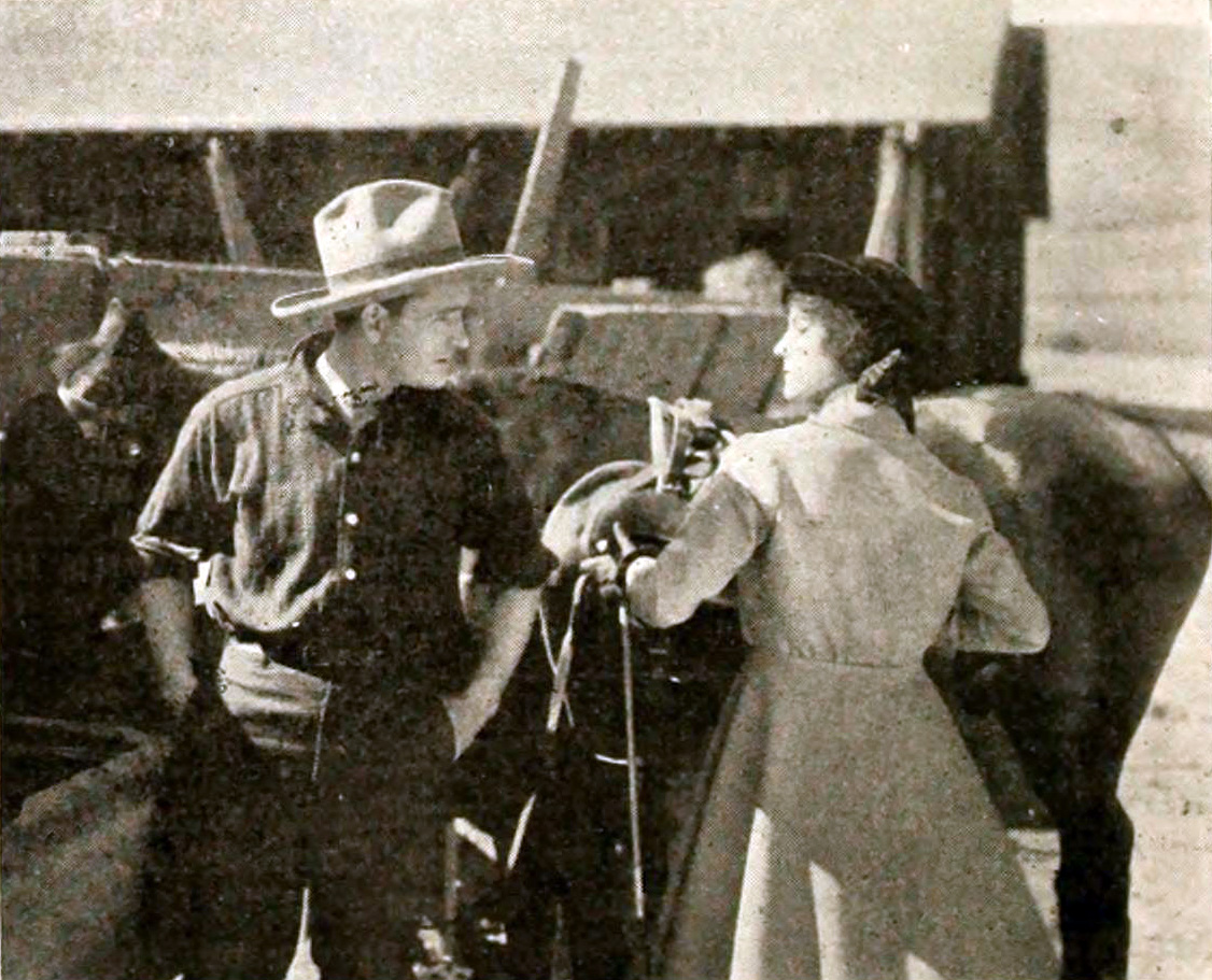 Illustration of a review in The Moving Picture World